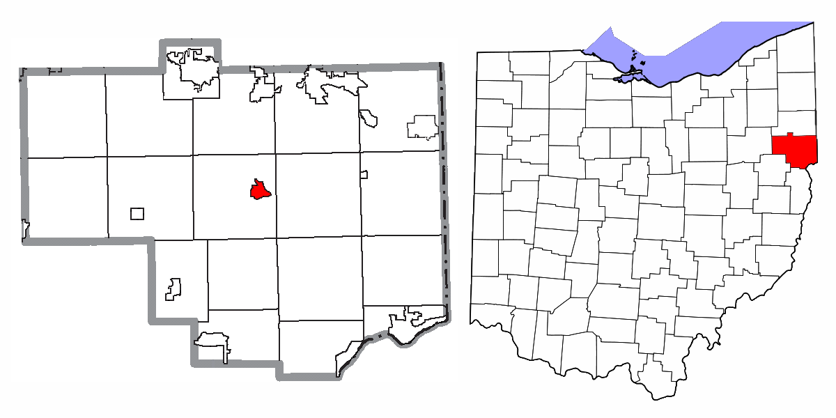 Map highlighting Village of Lisbon, Columbiana County, Ohio.